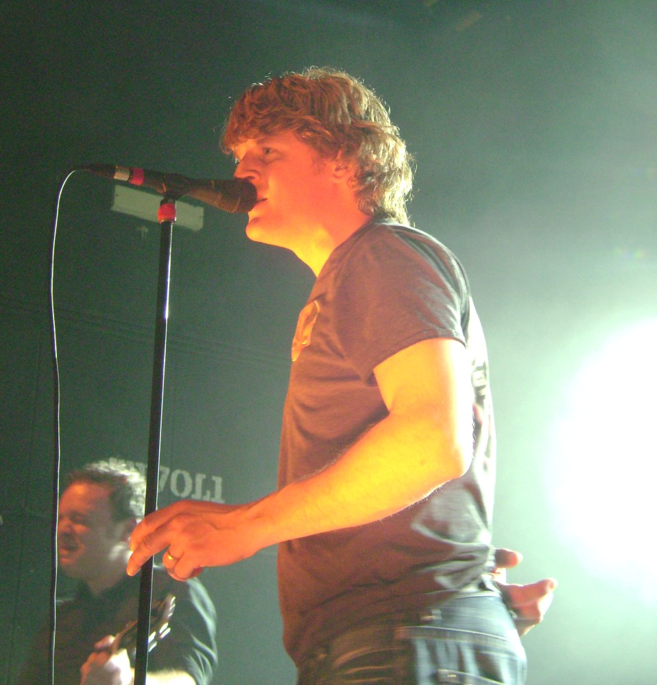 Dutch band Racoon, live in Utrecht, March 26, 2008